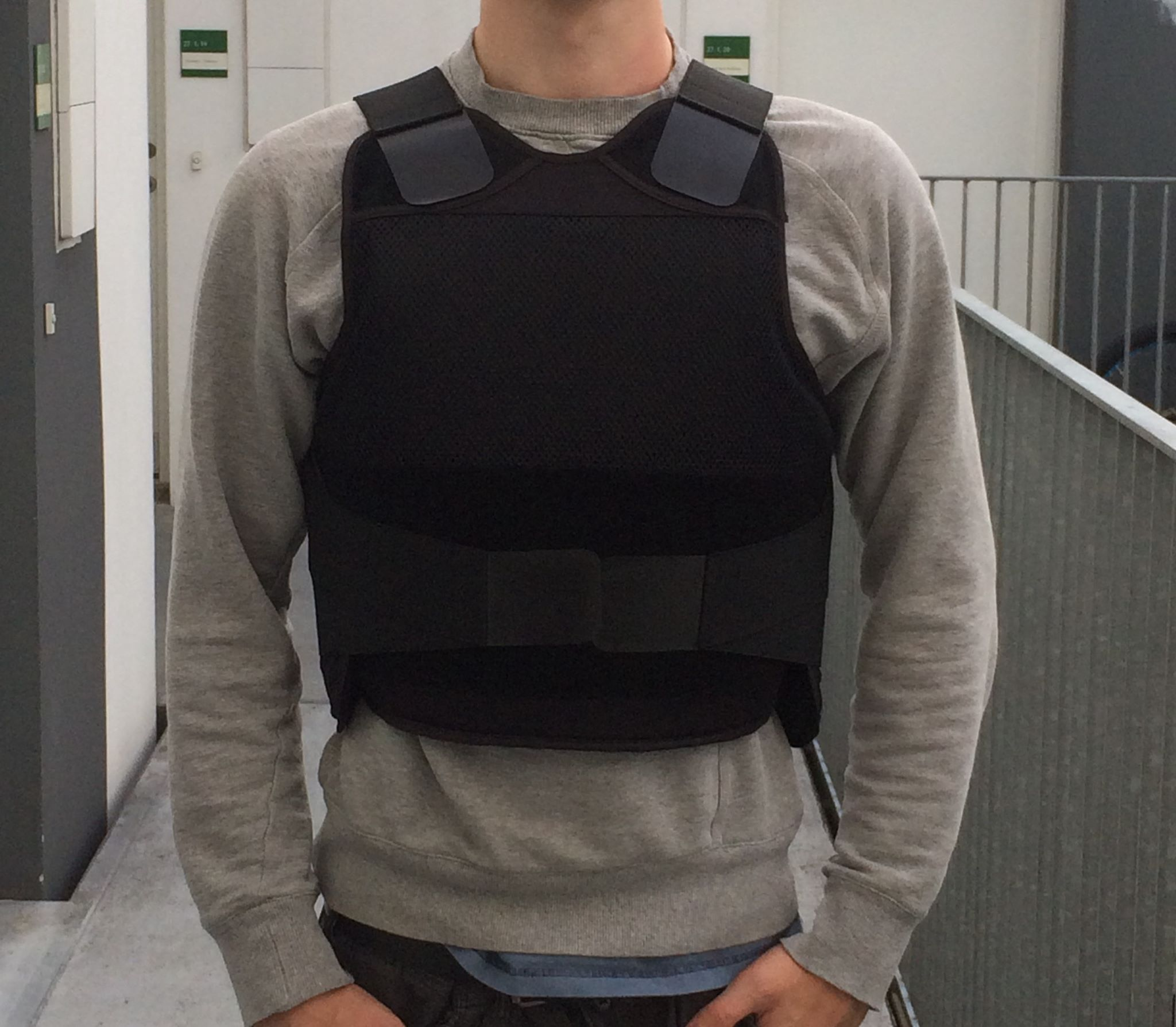 Bullet and Stab Proof Vest.